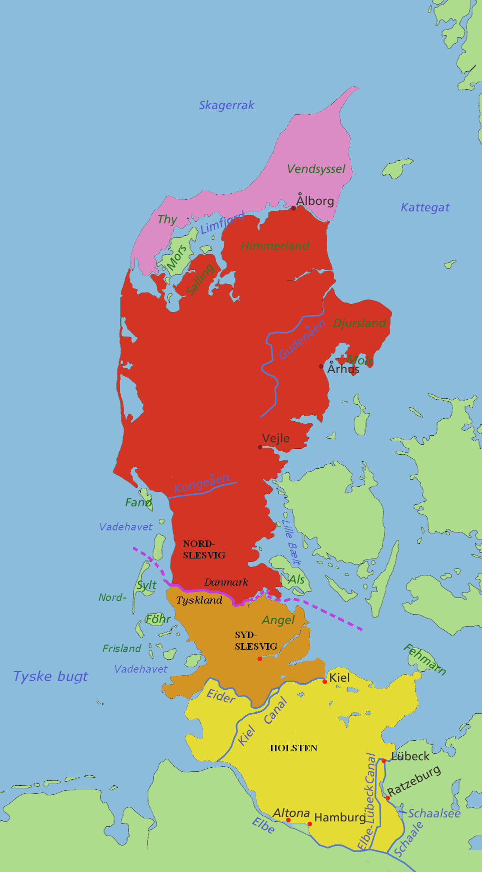 Map of Jutland (Danish edition of Image:Jutland Peninsula map.PNG )